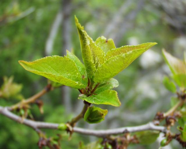 (en) Prunus brigantina (syn. P. brigantiaca), a photography originating of the internet site The accord of the autor, H. Brisse, is here. (fr) Prunus brigantina, une photographie issue du site internet L'accord de l'auteur, H. Brisse, se situe ici.